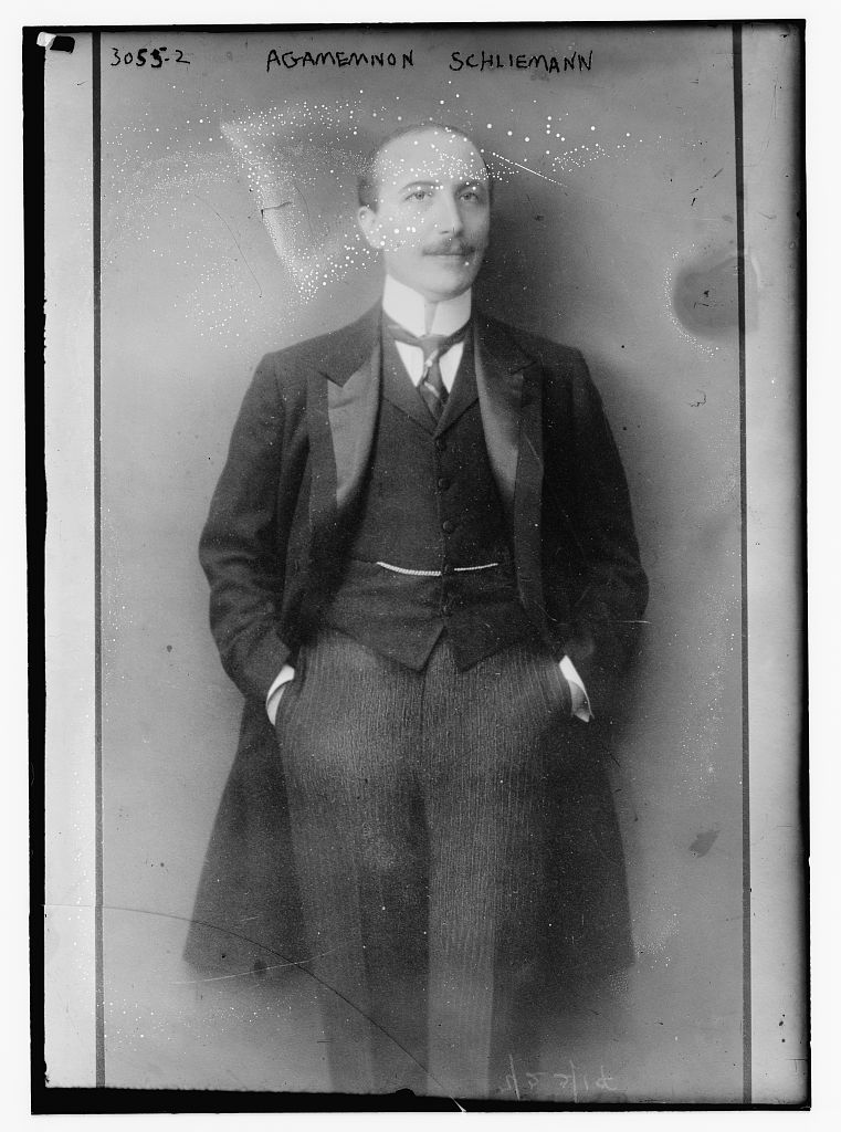 Agamemnon Schliemann (LOC) Bain News Service,, publisher. Agamemnon Schiemann [between ca. 1910 and ca. 1915] 1 negative : glass ; 5 x 7 in. or smaller. Notes: Title from unverified data provided by the Bain News Service on the negatives or caption cards. Forms part of: George Grantham Bain Collection (Library of Congress). Format: Glass negatives. Repository: Library of Congress, Prints and Photographs Division, Washington, D.C. 20540 USA, General information about the Bain Collection is available at Persistent URL: Call Number: LC-B2- 3055-2